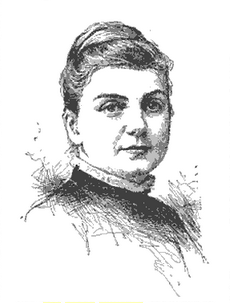 Elia Goode Byington